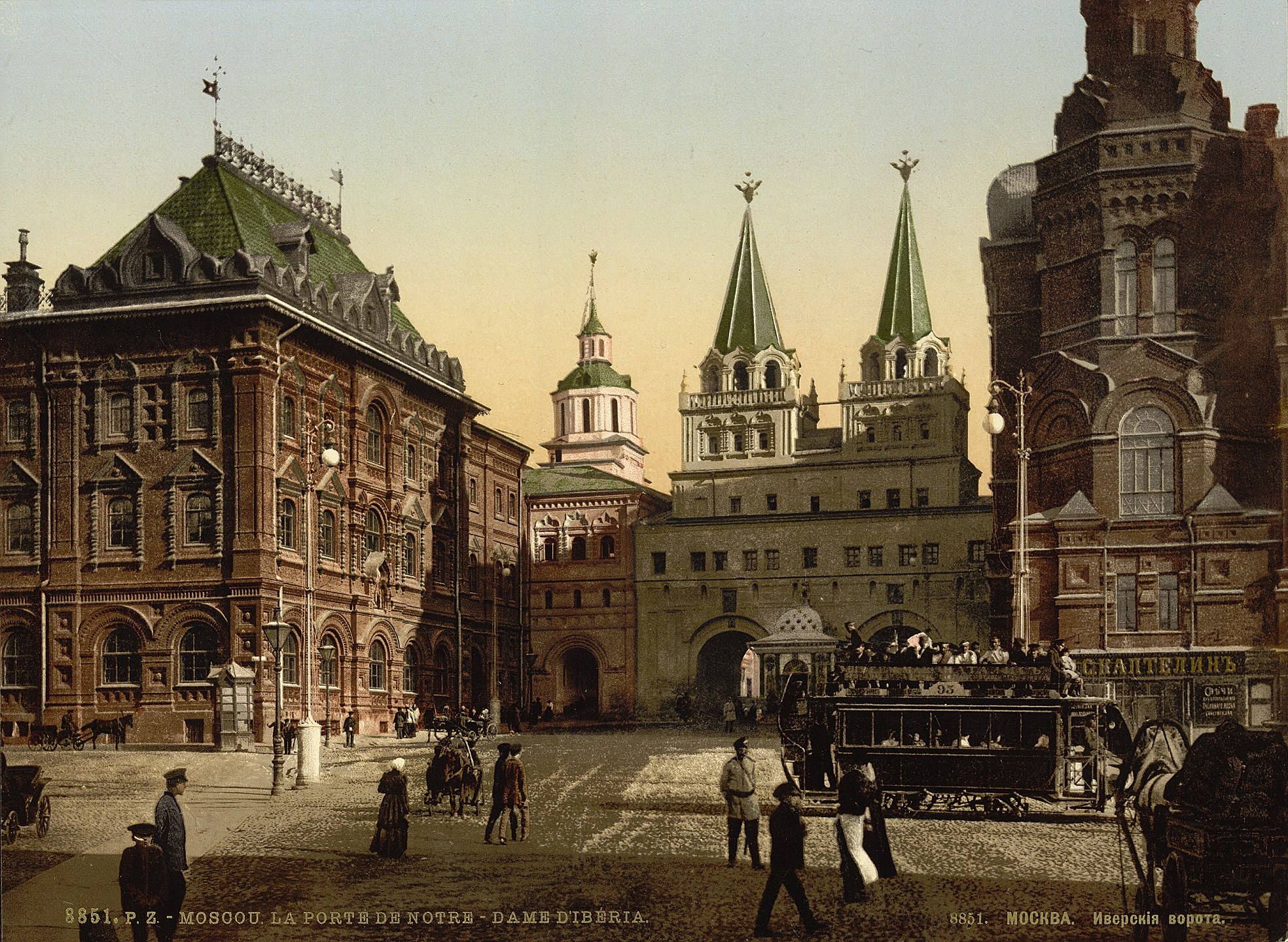 19th-century postcard of Voskresensky (Resurrection) or Iberian Gate in Moscow